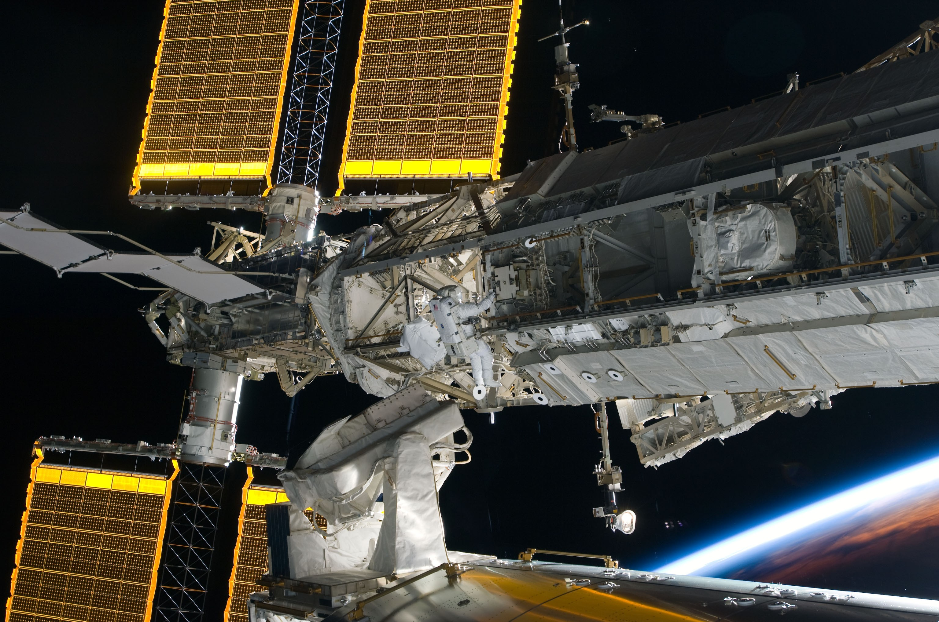 Astronaut Steve Bowen, STS-126 mission specialist, participates in the mission's first session of extravehicular activity (EVA) as construction and maintenance continue on the International Space Station. During the six-hour, 52-minute spacewalk, Bowen and astronaut Heidemarie Stefanyshyn-Piper (out of frame), mission specialist, worked to clean and lubricate part of the station's starboard Solar Alpha Rotary Joints (SARJ) and to remove two of SARJ's 12 trundle bearing assemblies. The spacewalkers also removed a depleted nitrogen tank from a stowage platform on the outside of the complex and moved it into Endeavour's cargo bay. They also moved a flex hose rotary coupler from the shuttle to the station stowage platform, as well as removing some insulation blankets from the common berthing mechanism on the Kibo laboratory.